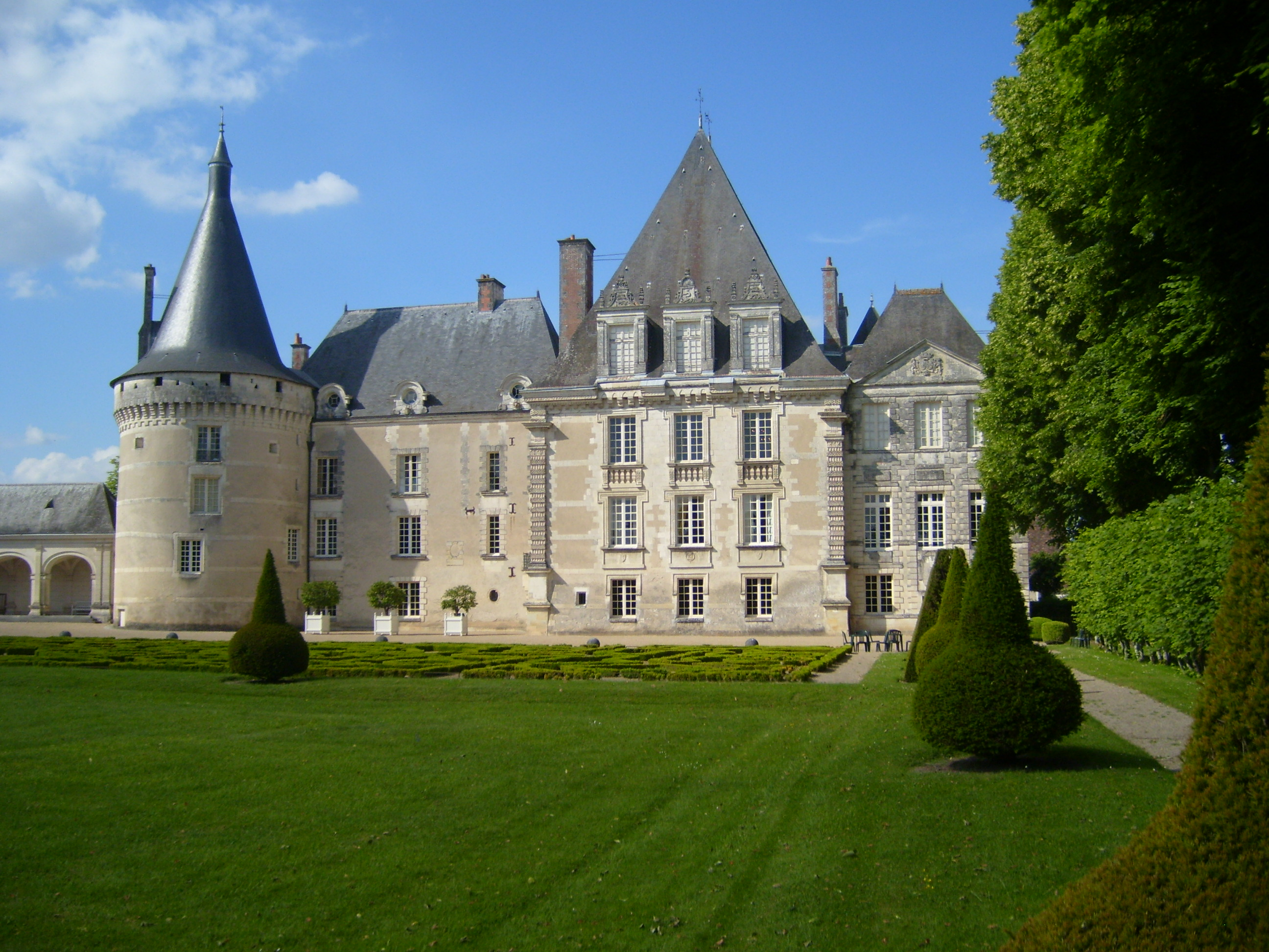 View of the facade of the Chateau d'Azay-le-Ferron